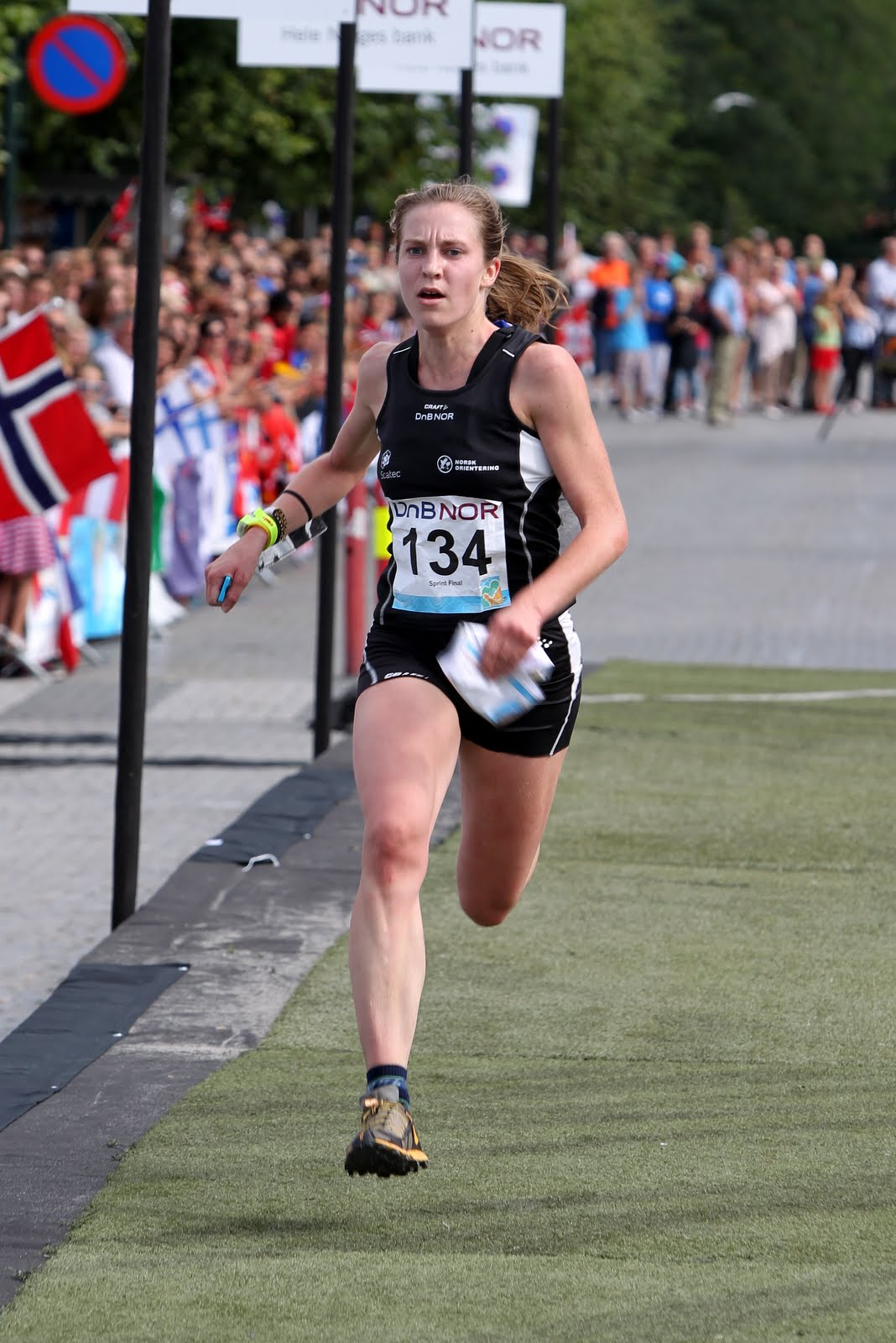 Elise Egseth at World Orienteering Championships 2010 in Trondheim, Norway